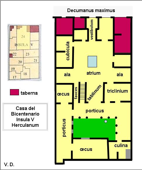 Map of Bicenteario House - Herculanum